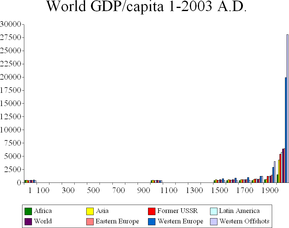 Originally from en.wikipedia; description page is/was here.